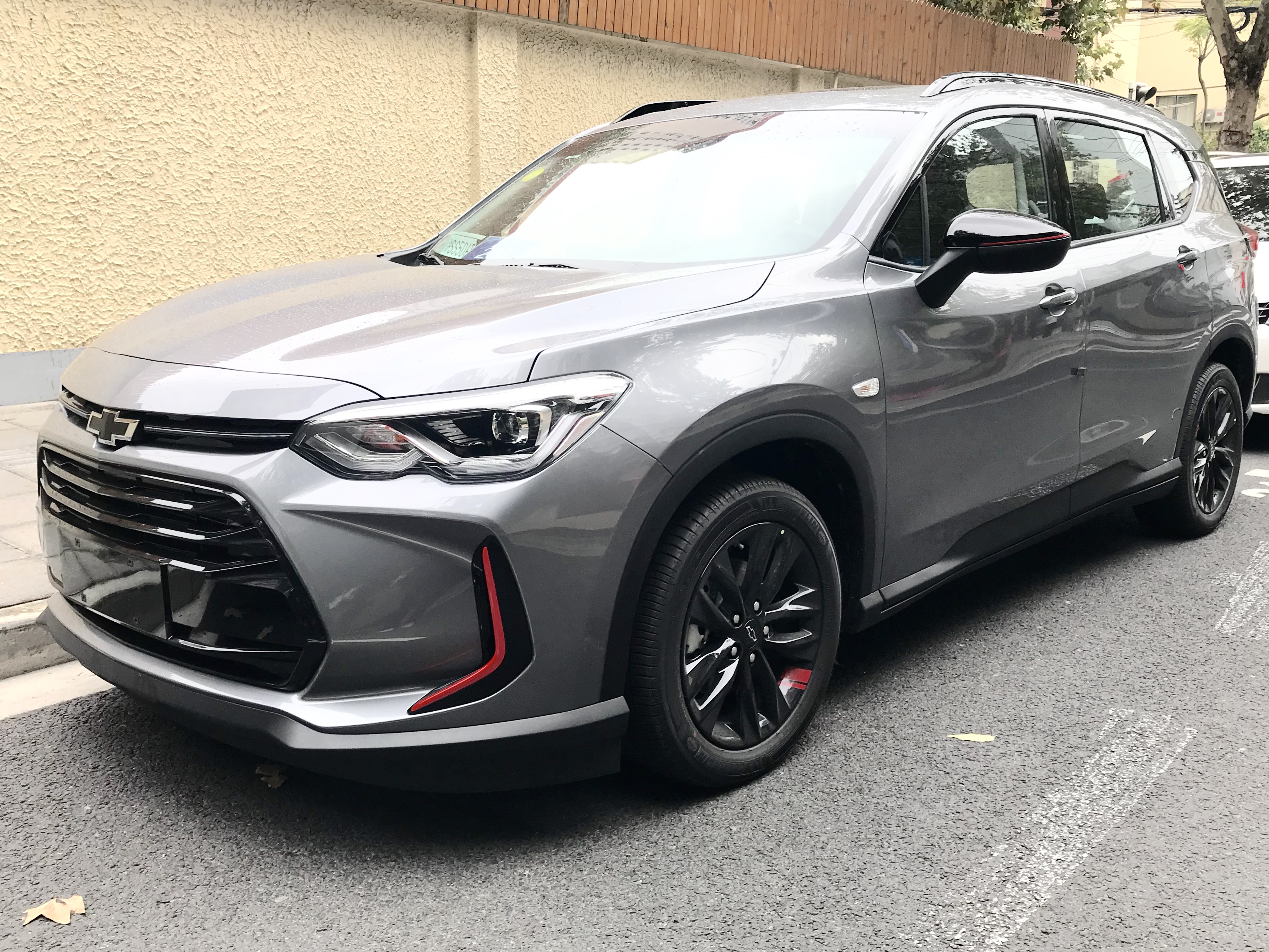 Chevrolet Orlando front